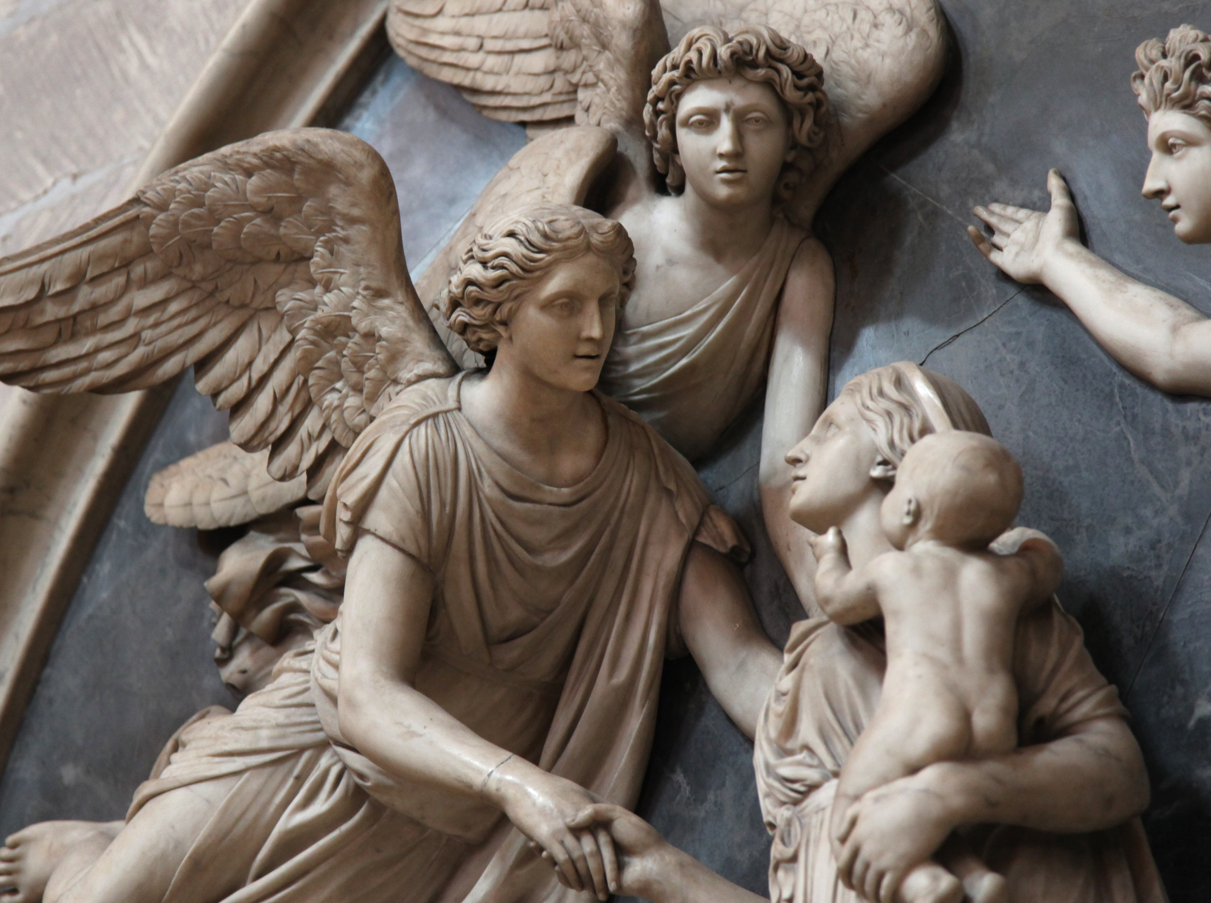 The monument to Sarah Morley in Gloucester cathedral shows her holding her baby and being greeted by angels. Sarah Morley died a few days after giving birth while returning from India to Britain. They were both buried at sea.